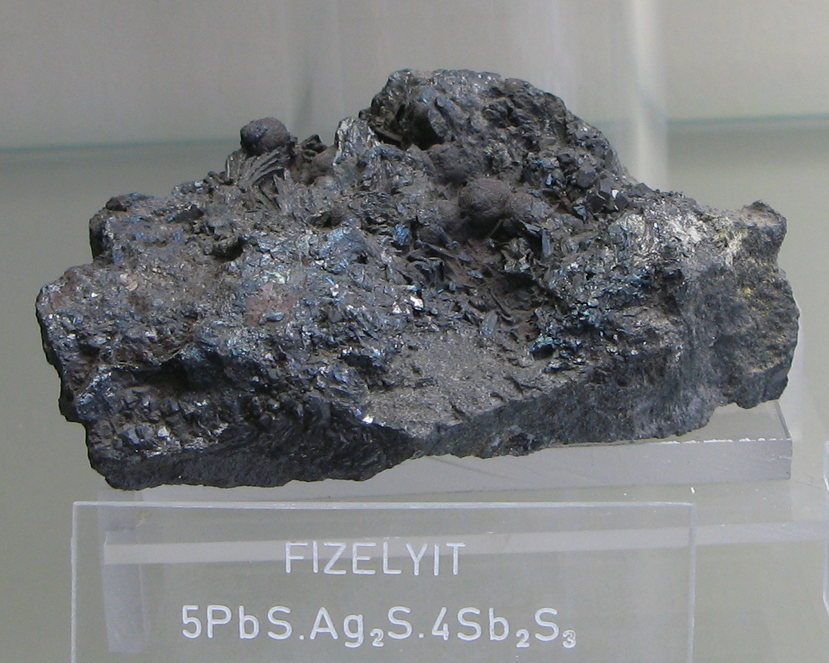 Fizélyite - Fundort: Kisbanya, Romania - Exposed in the Mineralogical Museum, Bonn, Germany